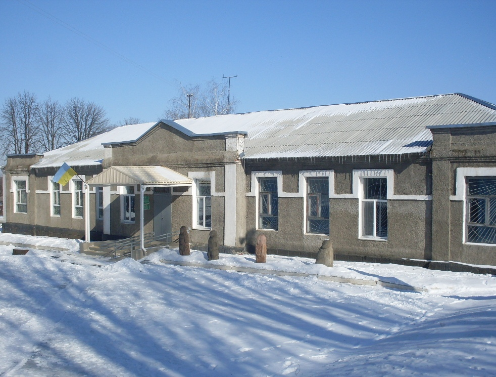 museum_volnovaha